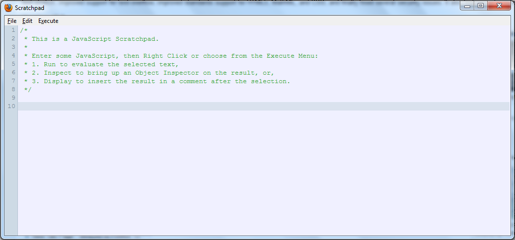 This is the Firefox Scratchpad available in version 10.